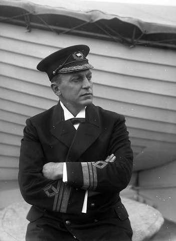 Norwegian passenger ship captain and World War II collaborator Kjeld Stub Irgens on board his vessel SS Stavangerfjord.